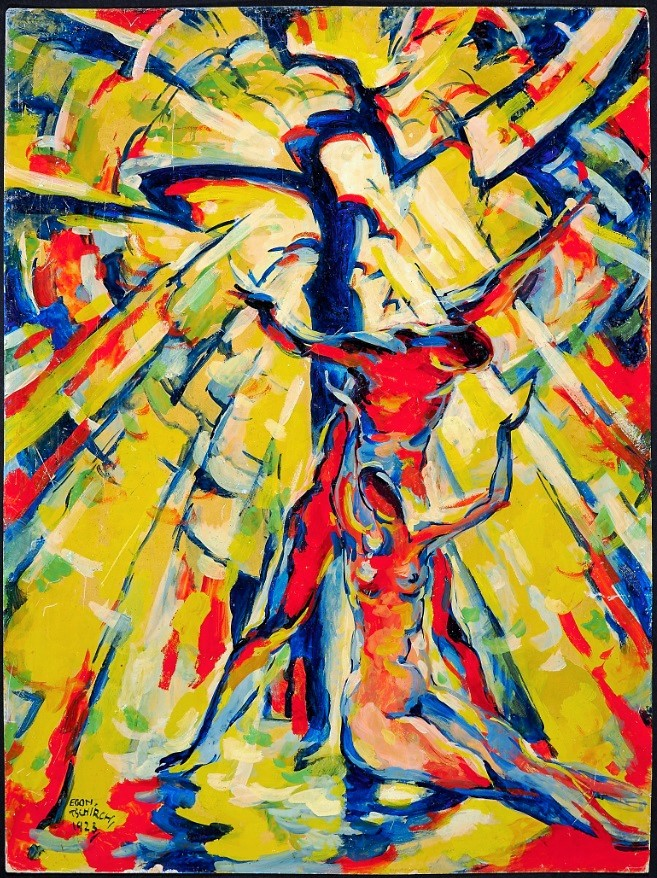 cycle of paintings „Song of Songs“ no 5 (Egon Tschirch, 1923)